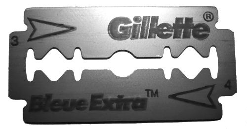 Gillette double-edged razorblade for safety razors